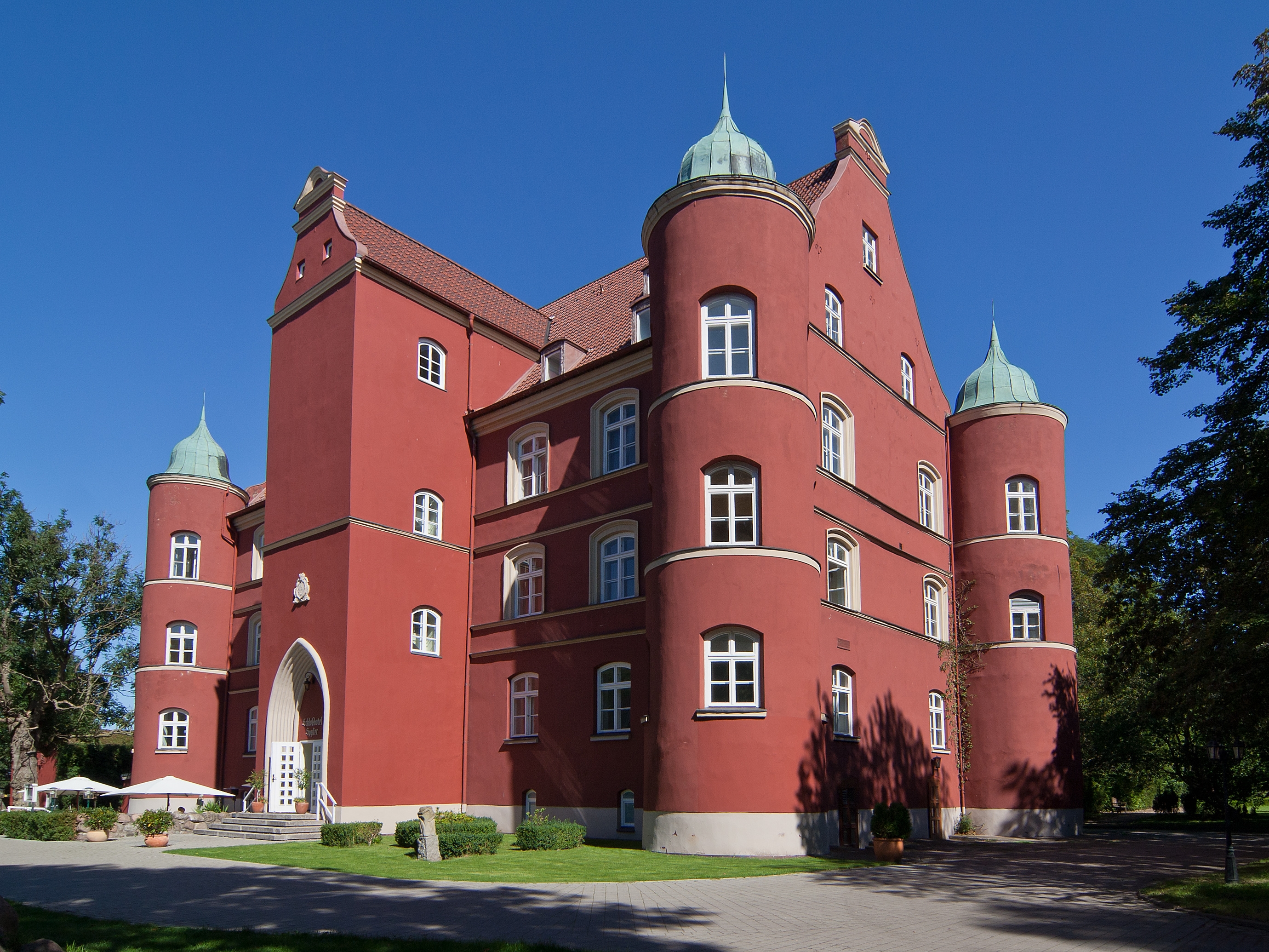 Castle Spyker, Island of Rügen